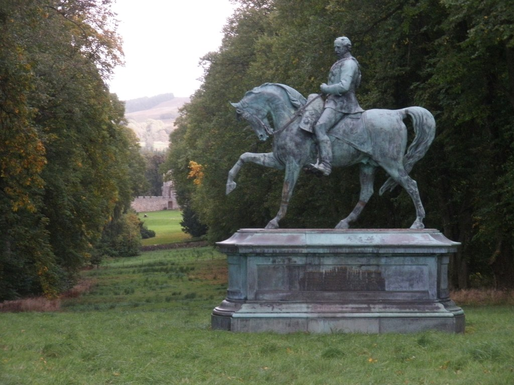 Mounted Statue of Field Marshal Viscount Gough